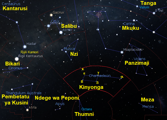 Constellation Chamaeleon as seen from Tanzania, Swahili labelled Kiswahili: Kundinyota Kinyonga (Chamaeleon) jinsi inavyoonekana kutoka Tanzania, majina kwa Kiswahili